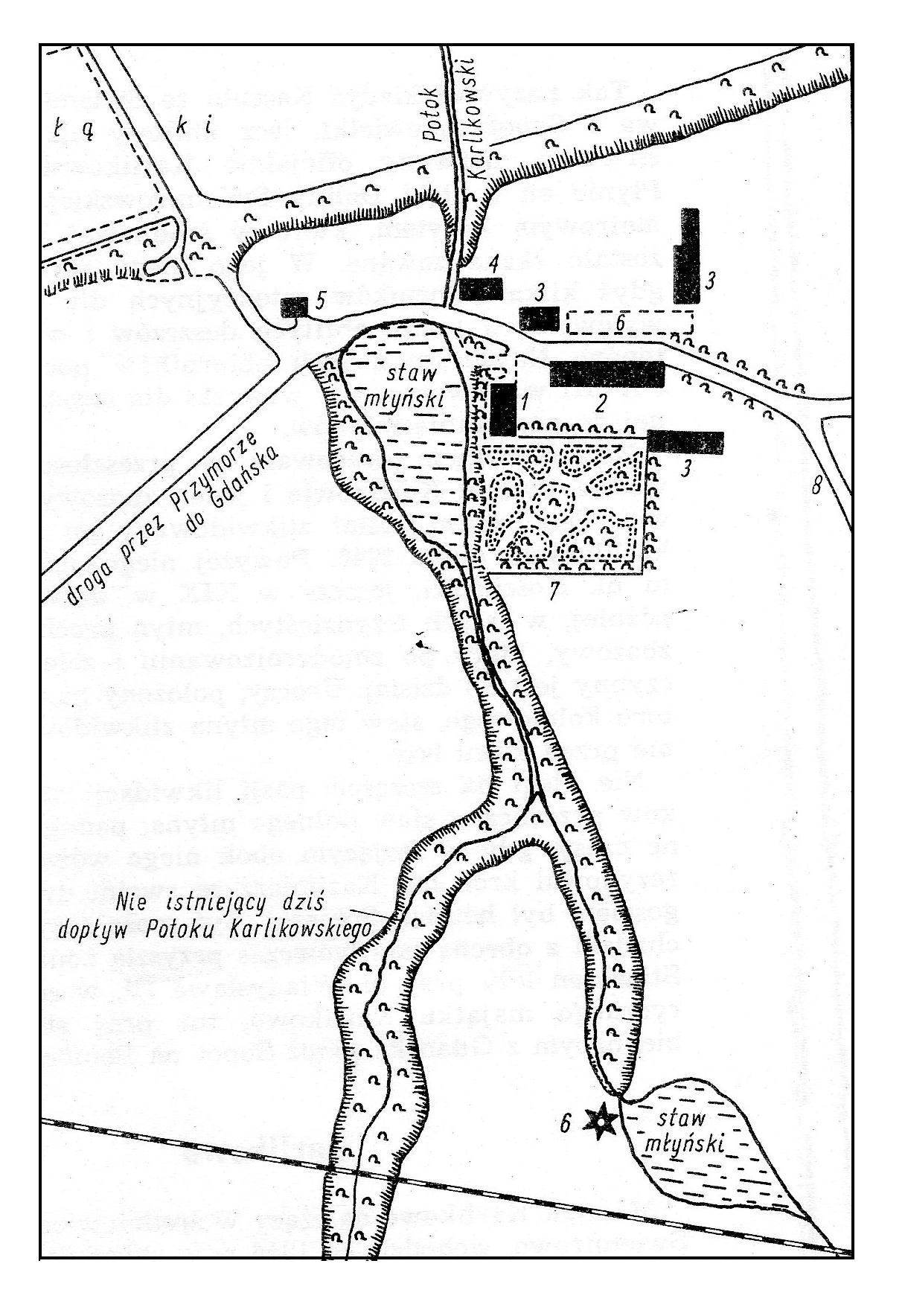 Map of Karlikowo from 1825